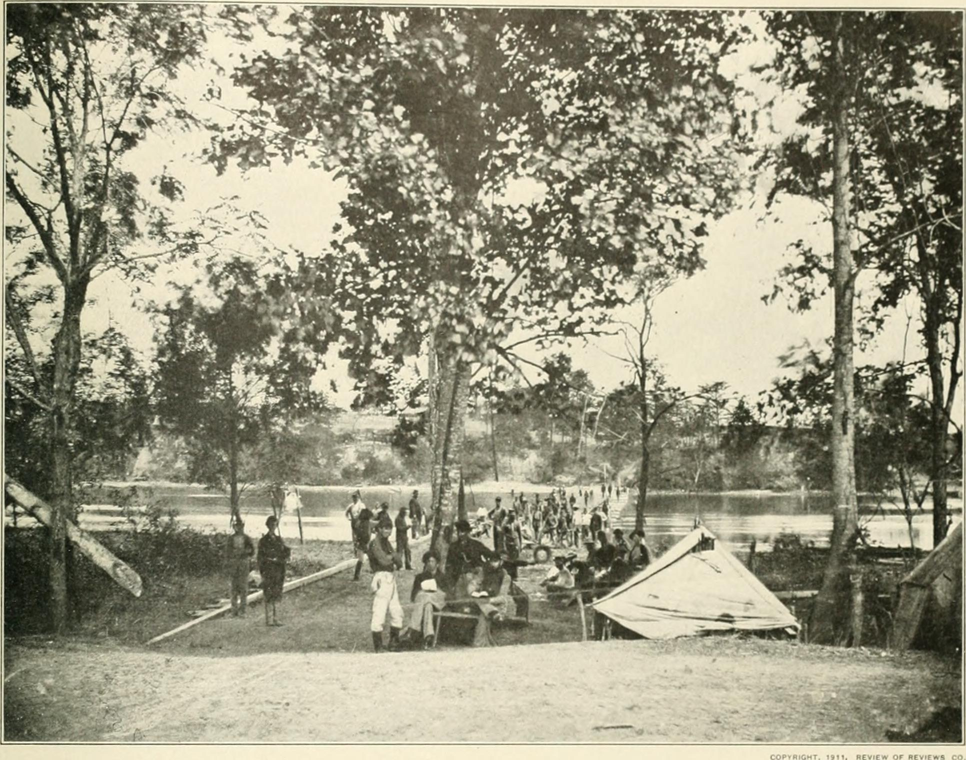 Title: The photographic history of the Civil War : thousands of scenes photographed 1861-65, with text by many special authorities Year: 1911 (1910s) Authors: Miller, Francis Trevelyan, 1877-1959 Lanier, Robert S. (Robert Sampson), 1880- Subjects: United States -- History Civil War, 1861-1865 Pictorial works United States -- History Civil War, 1861-1865 Publisher: New York : Review of Reviews Co. Text Appearing Before Image: ' Text Appearing After Image: COPRiGhT. REVIEW OF REVIEWS CO. SOLDIERS HV THE TITER PONTOON BIUDOE AT DEEP BOTTOM JAMES RIVER, lH(i;. To construct a pontoon bridge the first boat launched was rowedup-stream a short distance. The anchor was let go. Us rope wasthen paid out sufficiently to drop the boat down into position.A second anchor was dropped a short distance down-stream, if thecurrent proved irregular.The second boat was placedin position by the same proc-ess. Then the sills of thebridge, called balk. couldbe placed across by floatingthe second boat alongsidethe first, placing the endsof the balk, usually five innumber, across the gunwale.and then shoving the boalinto position by pushing onthe inner cuds of the balk.These ends had heavy cleatsso that they could be en-gaged over the further gun-wale of each boat. The